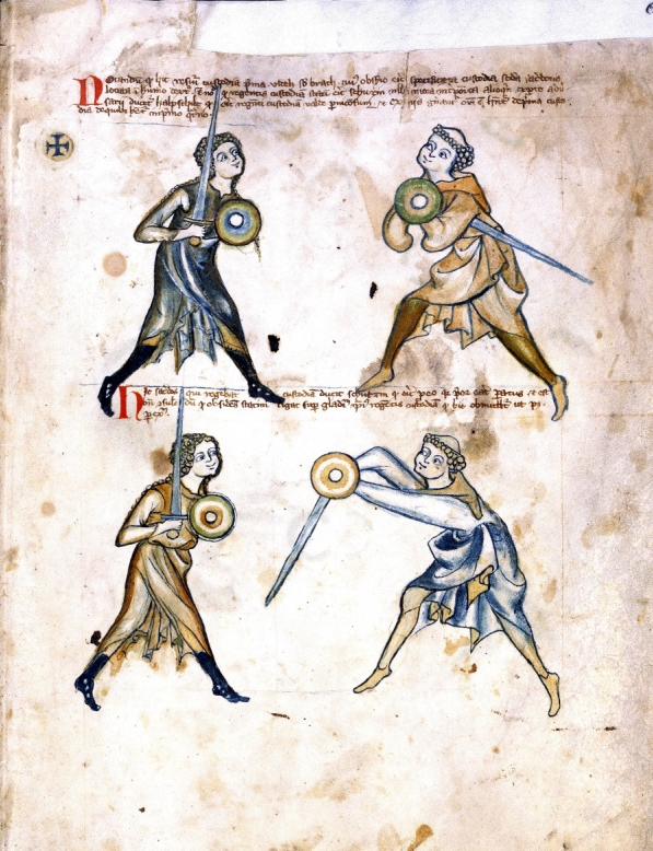 Fol. 32r of Royal Armouries Ms. I.33, a medieval treatise on fighting with sword and small shield (buckler), presumably made shortly before or after 1300 in Franconia. Facsimile by The Board of Trustees of the Armouries Royal Armouries Museum, Leeds. Original caption of facsimile image: "Manuscript illustration of two men fencing with sword and buckler. From the 'Tower Fechtbuch'. German, late 13th century"